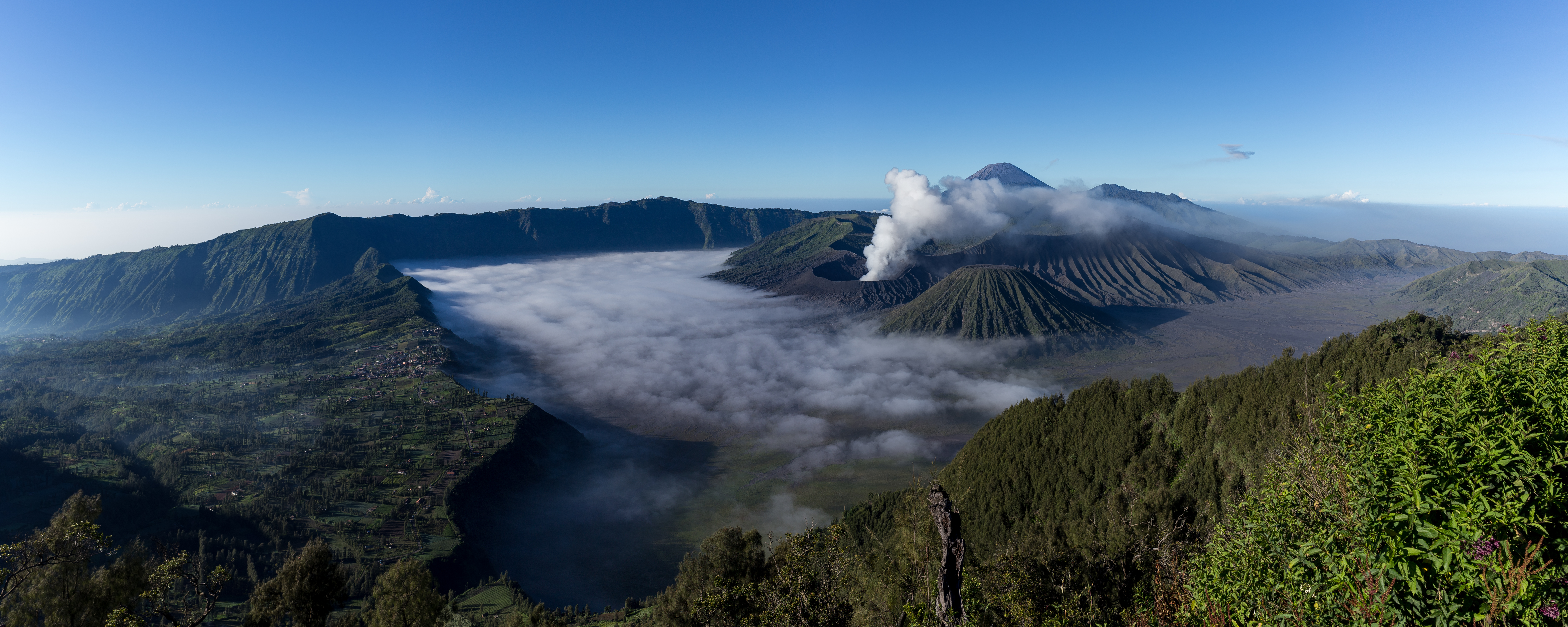 This panoramic photo depicts the Tengger Caldera and Mount Bromo Volcano, set amidst the Tengger Massif Volcano Complex in East Java, Indonesia. The panorama was created by taking seven vertical shots and stitching them together via Lightroom 6. The series of photos were taken from the top viewpoint of a nearby mountain, following a hike up from Cemoro Lawang hamlet to witness the sunrise. This beautiful landscape is officially part of the Bromo-Tengger-Semeru National Park.